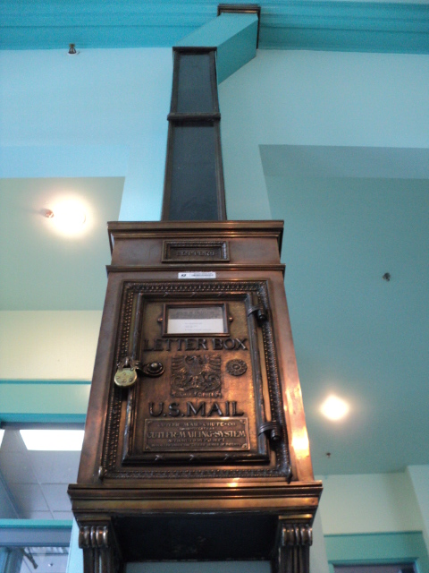 An active Cutler mail chute in the Idaho Building, Boise, Idaho.